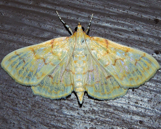 8/6/14 Franklin County Photo and ID thanks to Jack Foreman